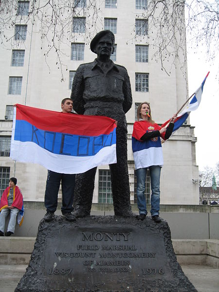 Demonstration in London supporting Serbia